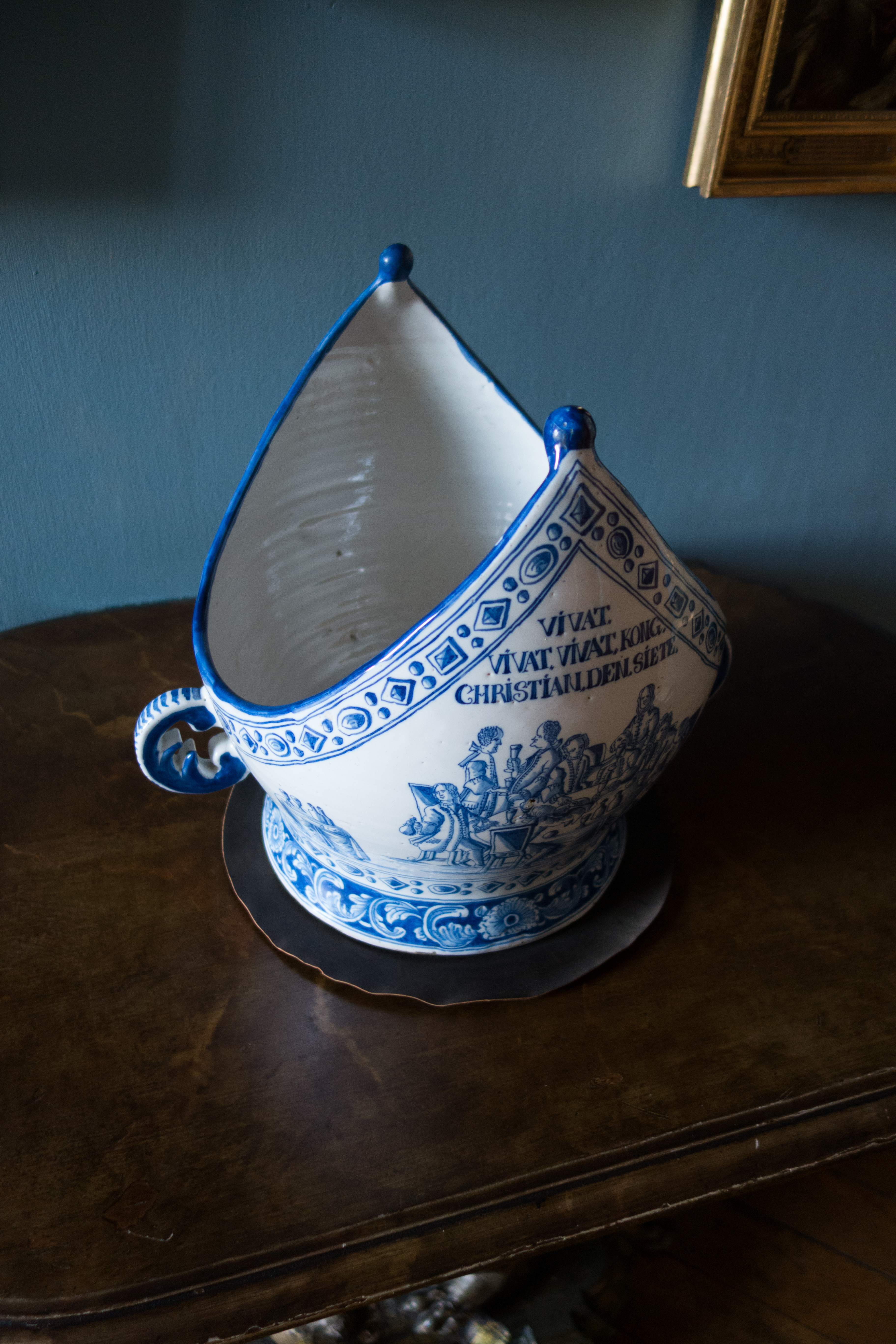 Punch bowl from the factory in Store Kongensgade on display at Frederiksborg Castle, Danish Museum of National History, 2017